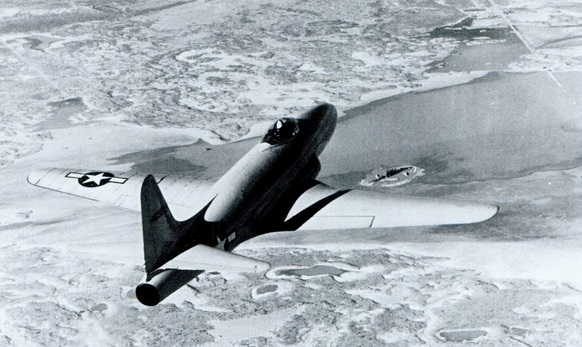 The Lockheed XF-14 (photo-reconnaissance variant of the YP-80 Shooting Star) over Rogers Dry Lake and the bombing training aid Muroc Maru.